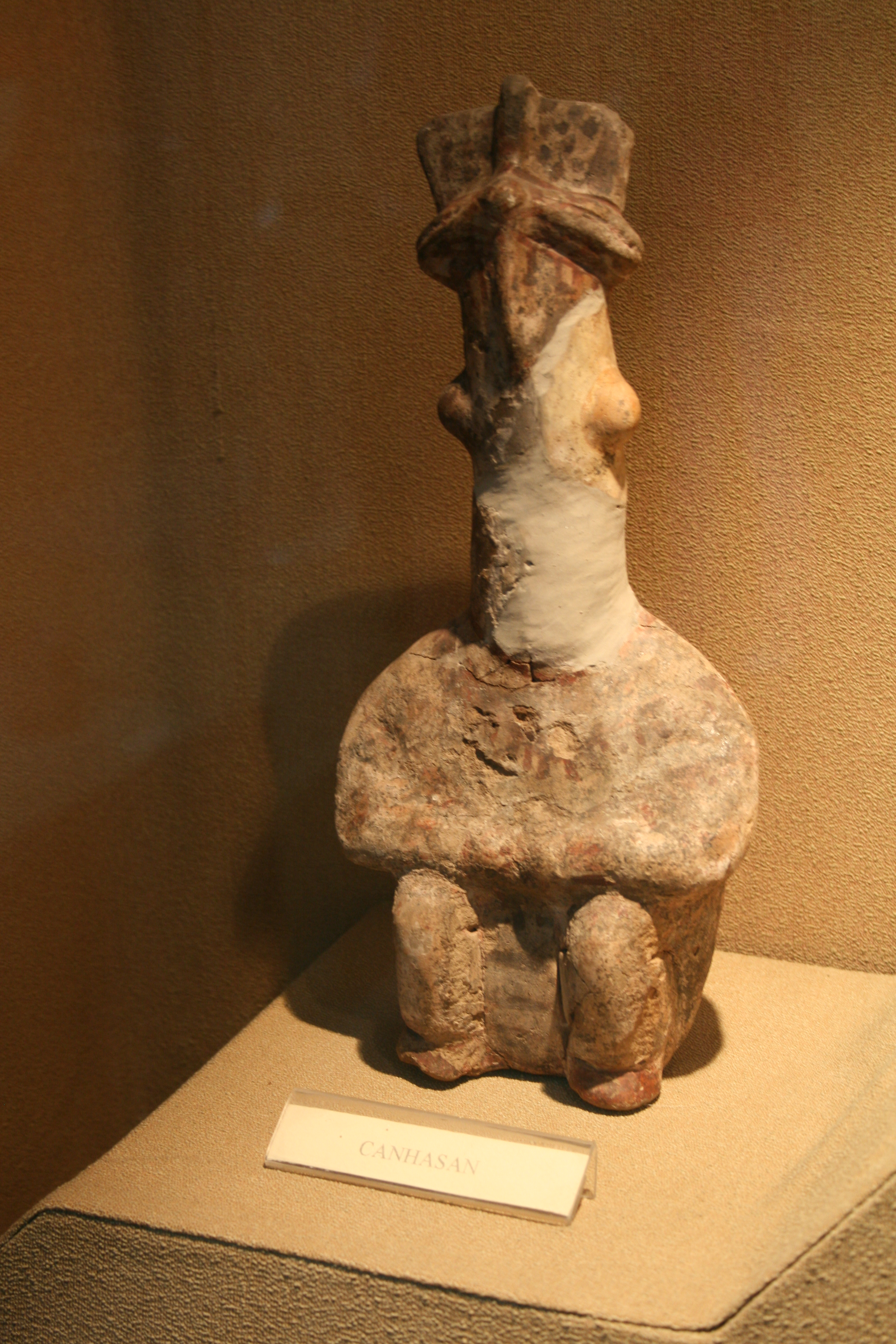 A figurine from Canhasan, 23 cm, 5th millenium BC; an archaeological site in Turkey.